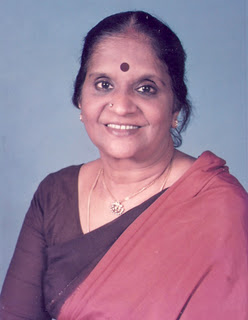 This is a photo of reknowned 'Vainika Vidwan' Mangalam Muthuswami on whom there is an article.